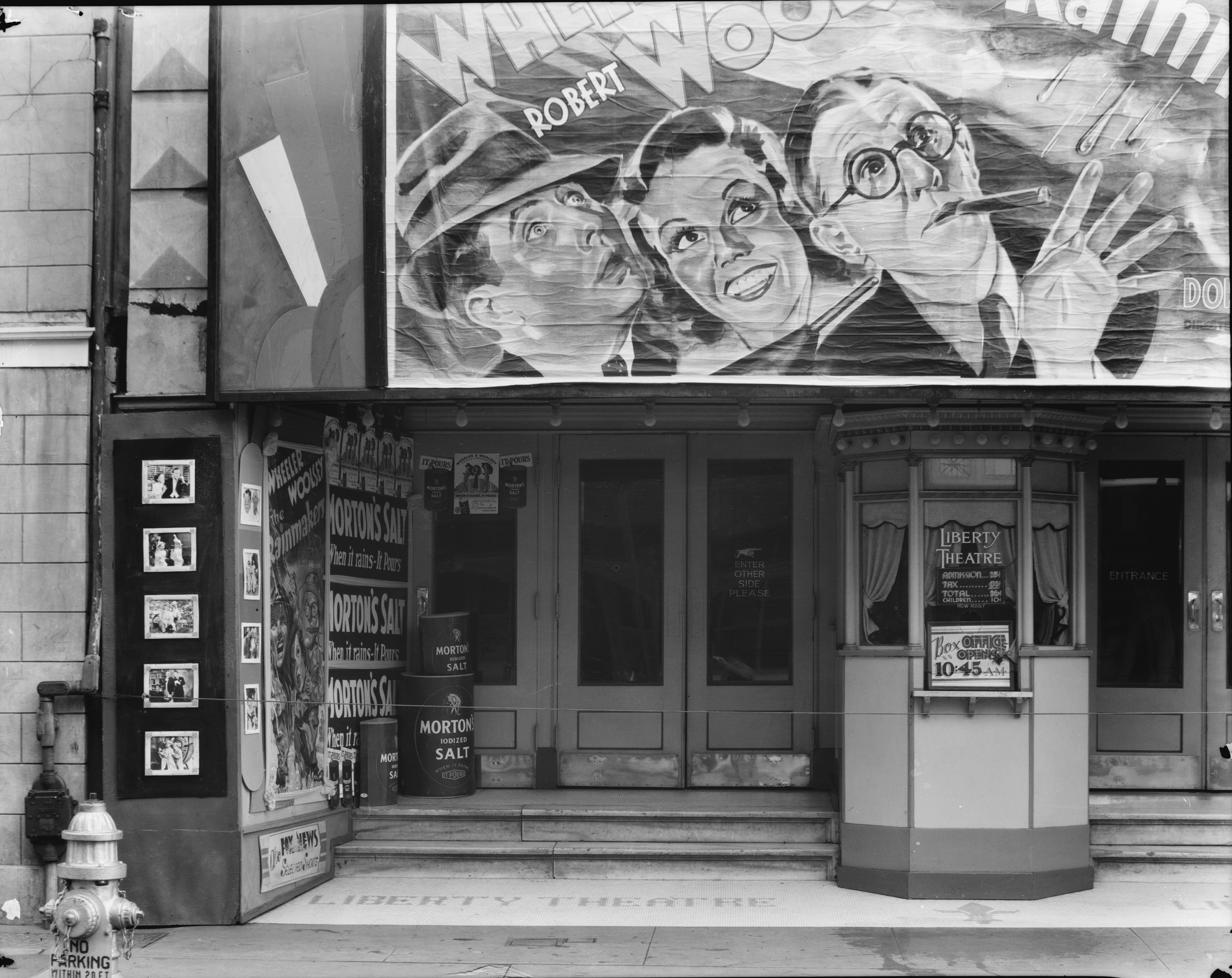 New Orleans, c. late 1935. "Movie theatre on Saint Charles Street. Liberty Theater, 420 St. Charles Avenue, New Orleans, Louisiana". View shows a portion of the front of the cinema, entrance doors (roped off) and ticket booth, advertisements for the currently-showing film The Rainmakers, accompanied by posters and mockups of Morton's Salt containers, apparently for a commercial promotion. The theater was later demolished, and as of 1980 the location is now occupied by the Pan American Life Center, 601 Poydras Street.